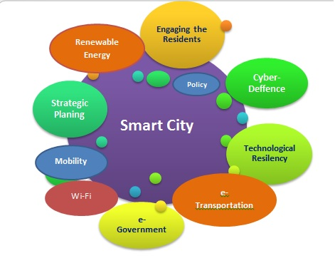 Smart City by Dr. Sam Musa